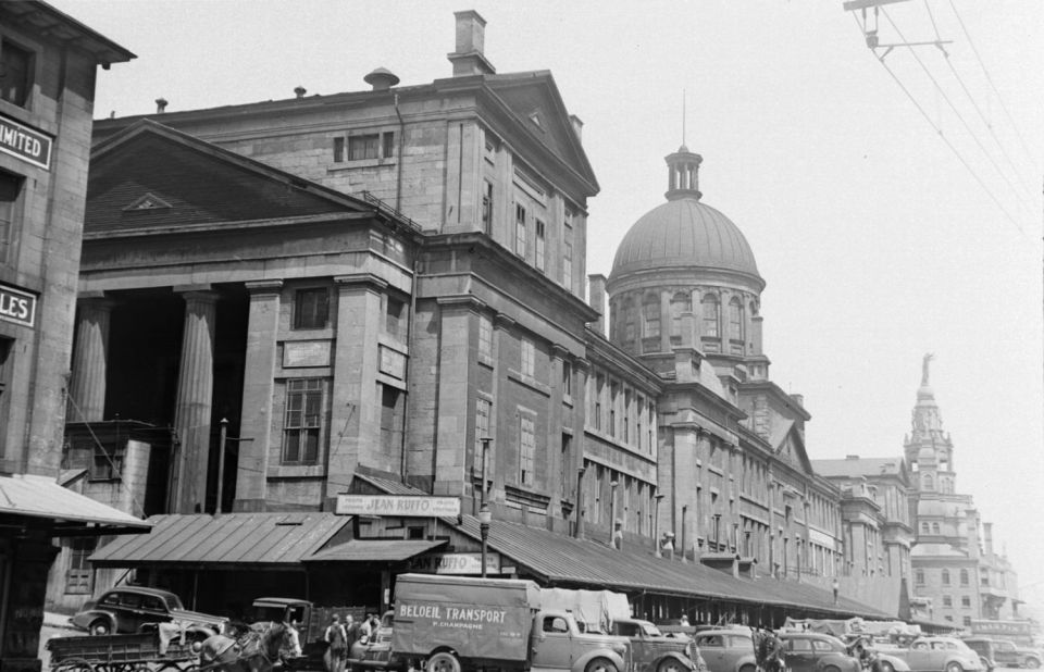 We see various vehicles parked outside the building marché Bonsecours, Saint-Paul Street East in Montreal.